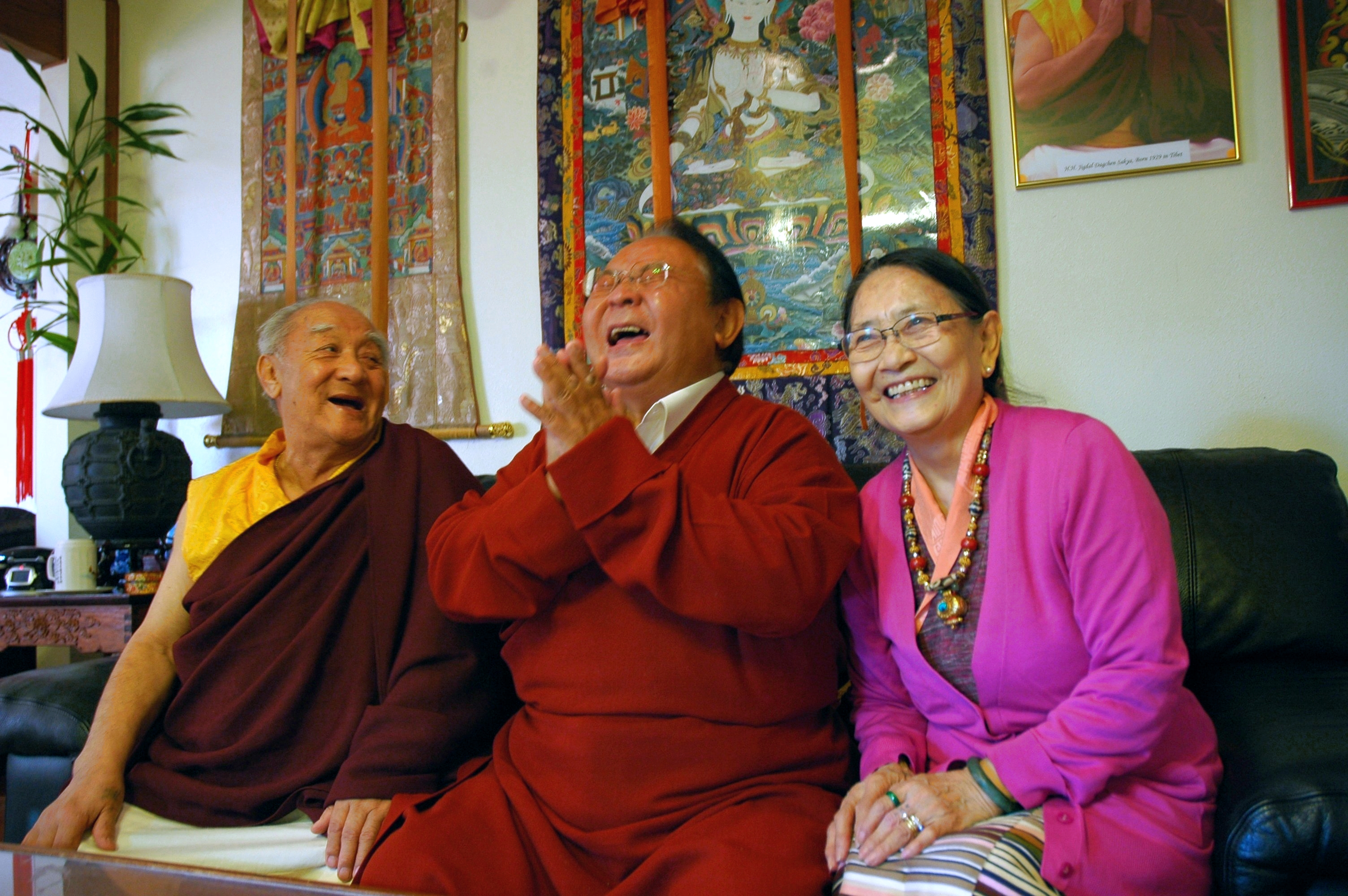 Here's proof that when great lamas get together they laugh and tell jokes and have a great time kidding around; HH JD Sakya, HE Sogyal Rinpoche, HE Dagmola Sakya, Seattle, Washington, USA.jpg Dec 2009.